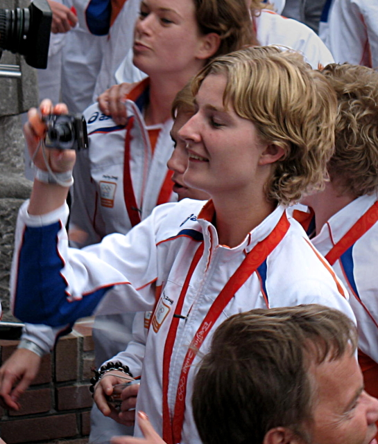 Ilse van der Meijden, 2008 Olympic water polo champion. Photo taken during the Welcome Home event organised at the Amsterdam Olympic stadium on August 25, 2008. Cropped, scaled, colour corrected version of